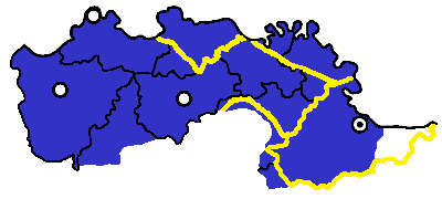 Bosanska posavina